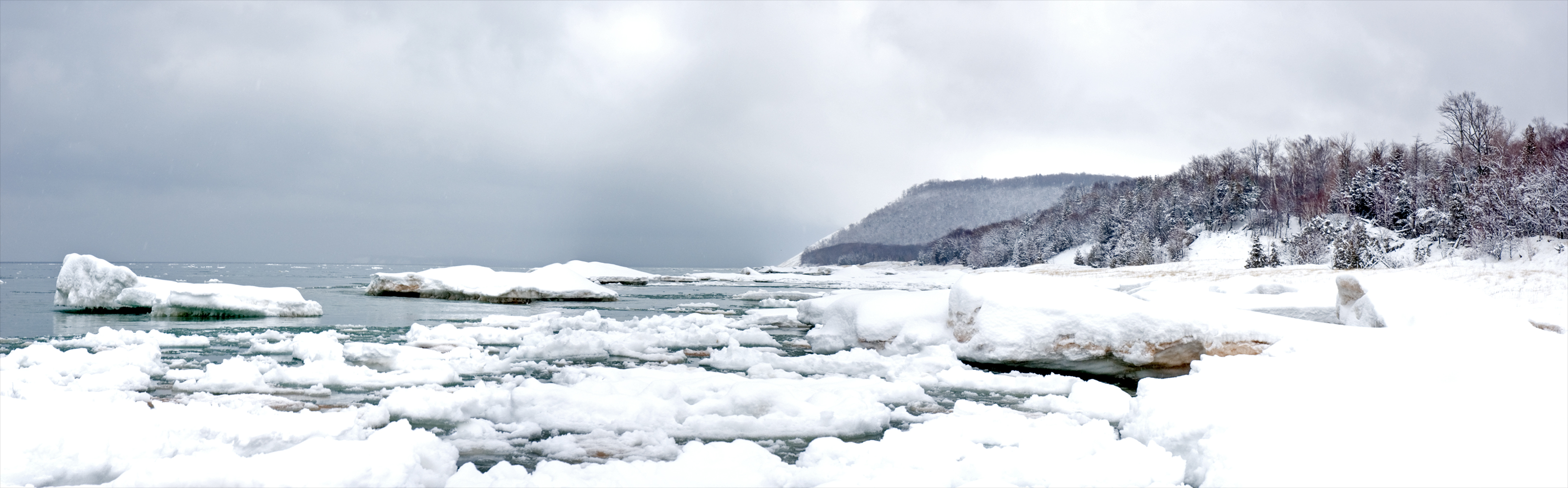 A composite image of the Sleeping Bear Dunes National Lakeshore facing north after a winter storm.